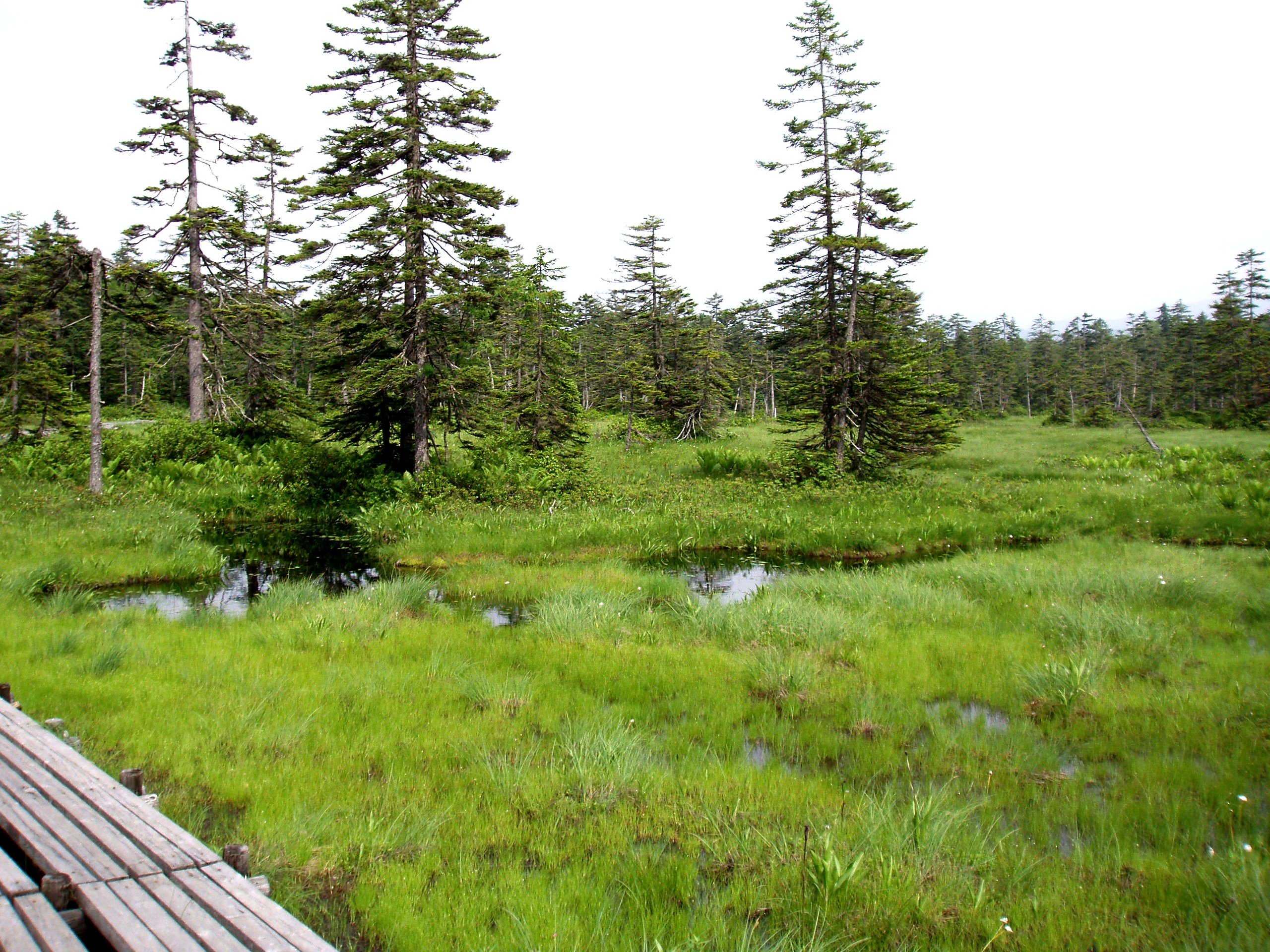 Ukishima wetlands in Takinoue.